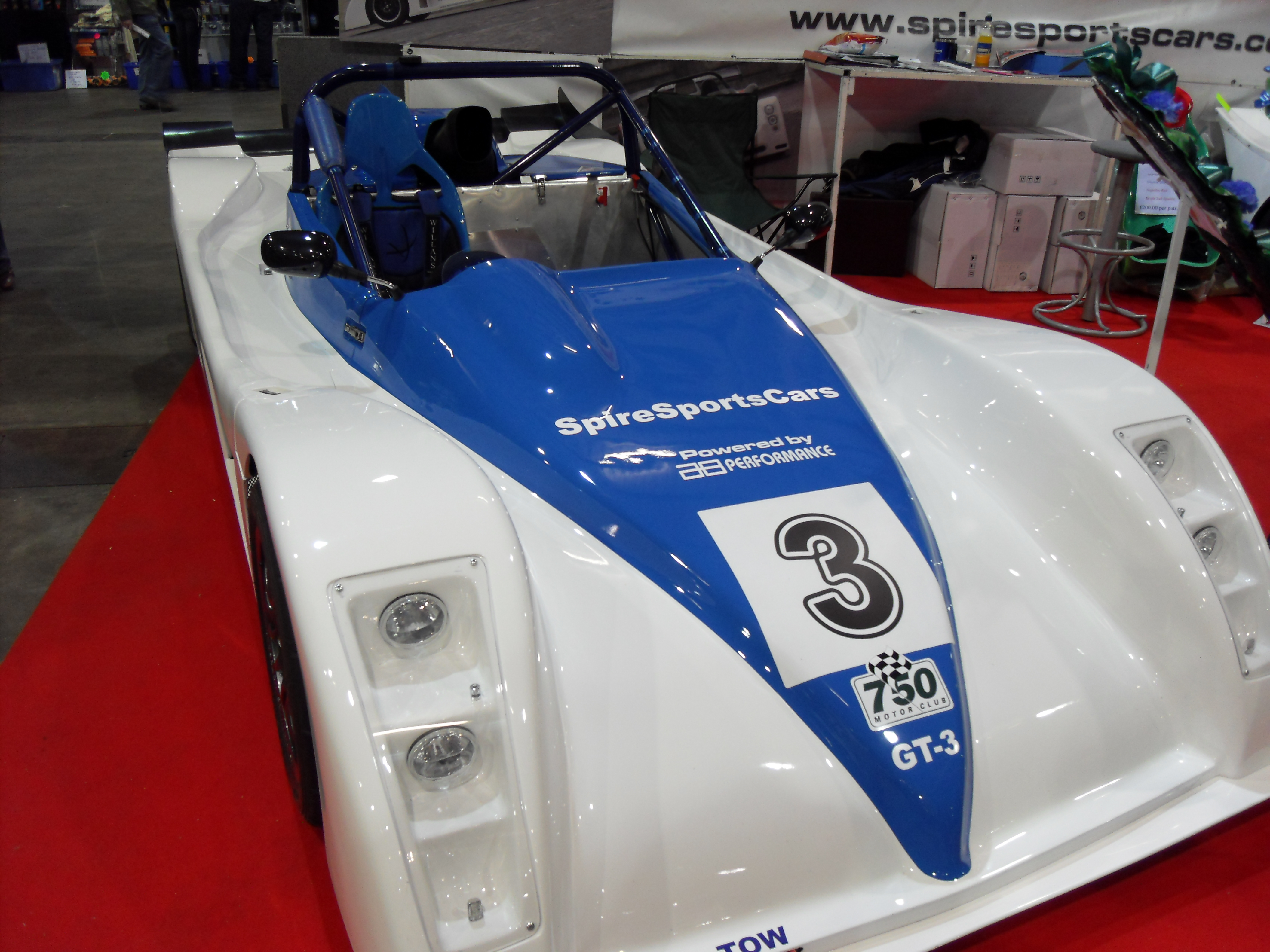 National Kit Car Show Stoneleigh 2011